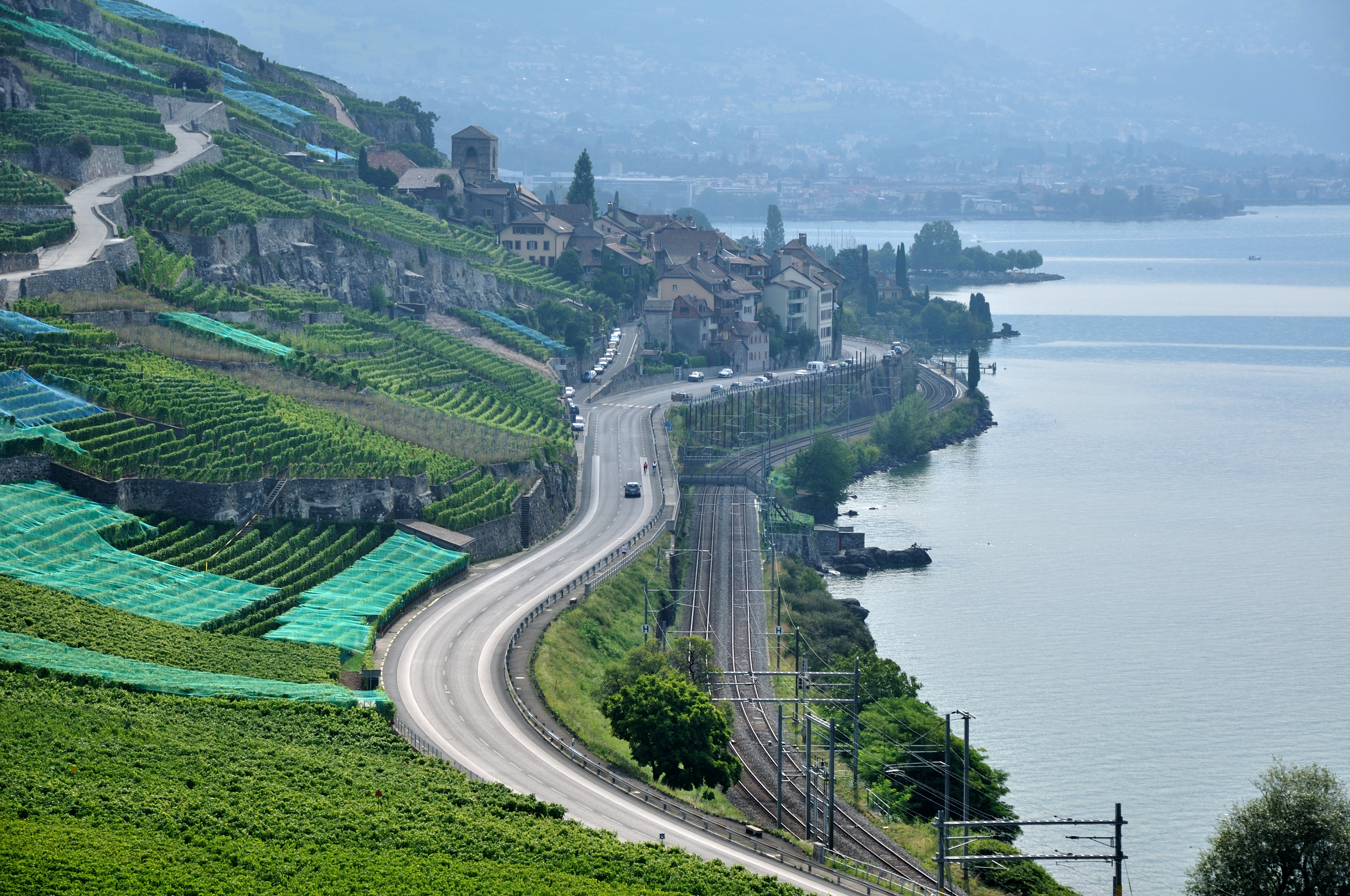 Switzerland, Vaud, hike along Lake Geneva from St. Saphorin to Lutry